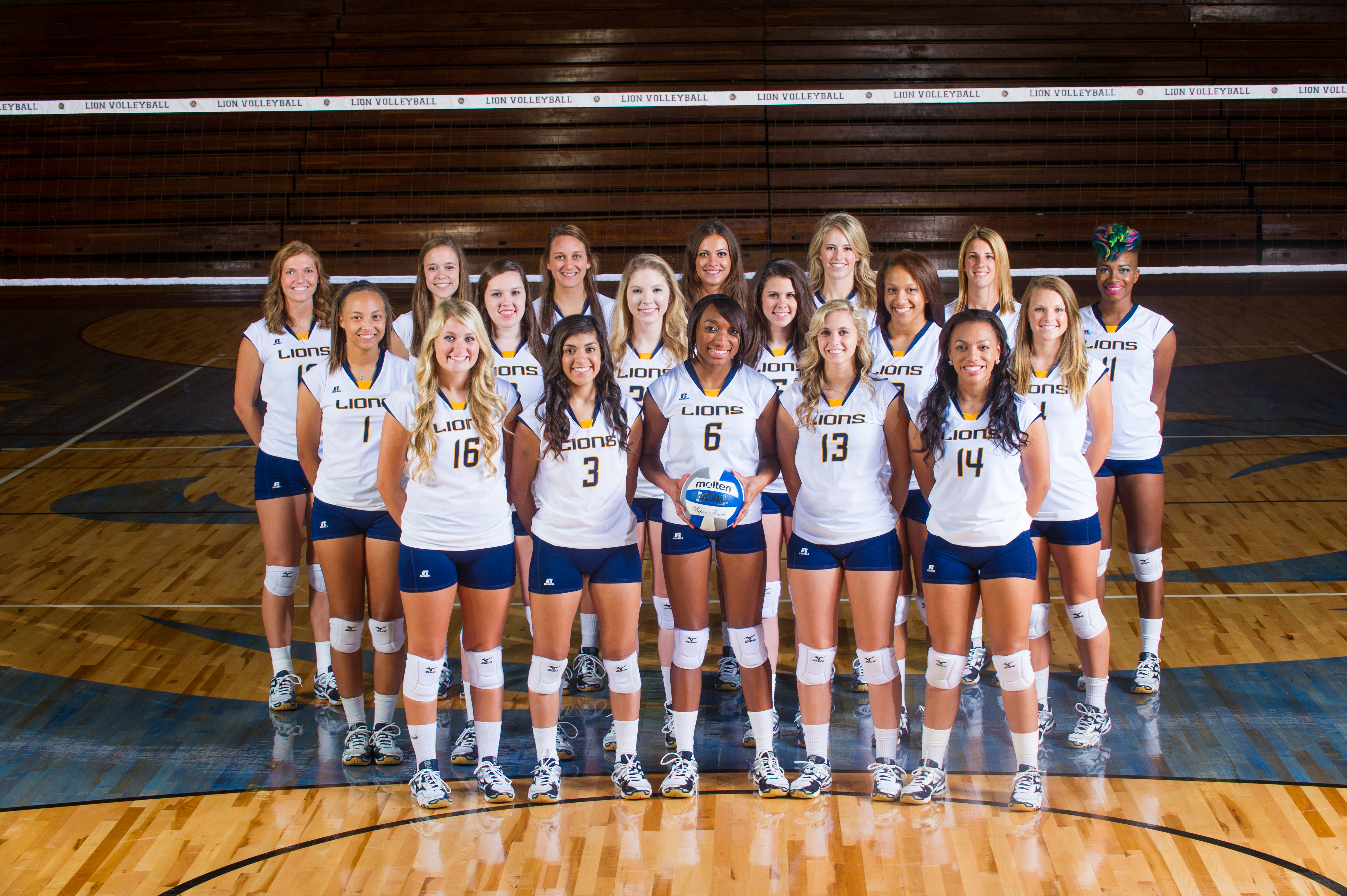 Volleyball 2014-7169 2014–15 Texas A&M–Commerce Lions women's volleyball team